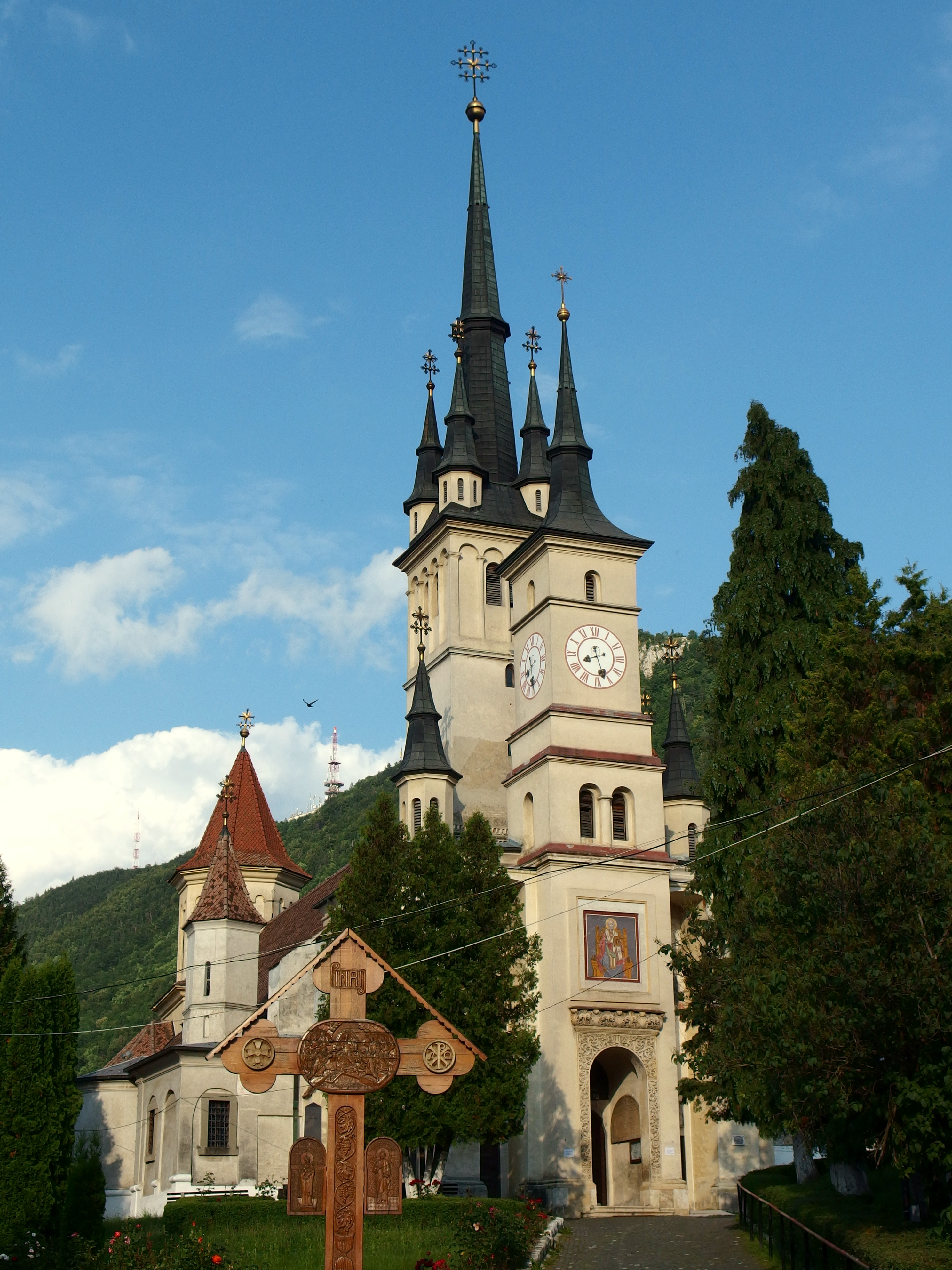 20140628 in Braşov.